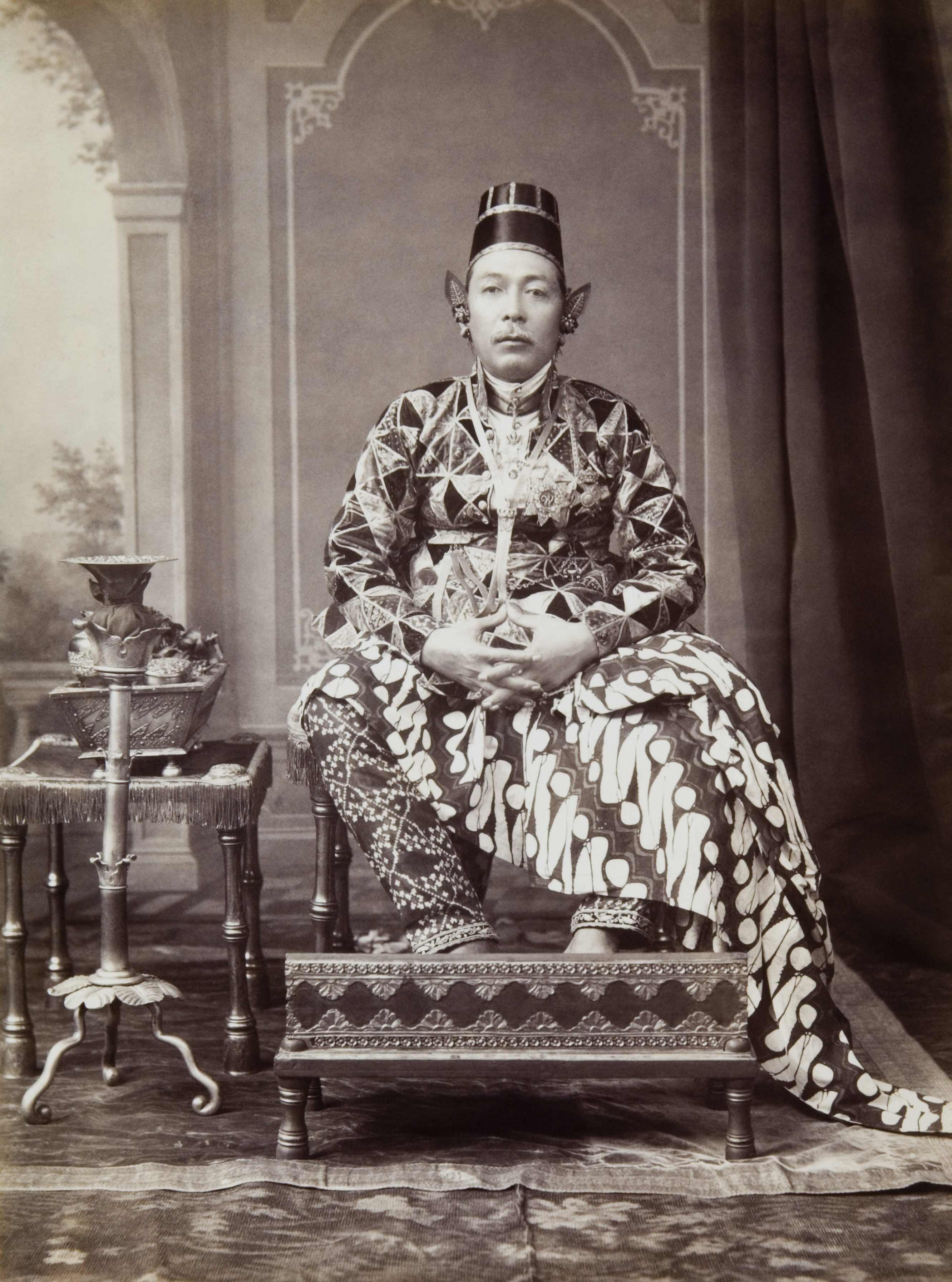 Photograph - Studio portait of Hamengkubuwana VII, Sultan of Yogyakarta Nedersaksies: foto. Dit is een studioportret van Sultan Hamengku Buwana VII gemaakt door Cephas (15 januari 1845 te Yogyakarta - 16 november 1912 te Yogyakarta). Hij was de hoffotograaf vanaf 1871 en woonde in de Lodji Ketjil Wetan, de huidige Jalan Mayor Suryotomo. Daar was ook zijn werkplaats. Het is niet zeker of deze foto gemaakt is in de studio van Cephas of dat deze zijn materiaal heeft meegenomen naar de kraton, om daar de foto's van de familieleden van de Sultan te maken. De Sultan zit op de Dampar Kencana, de gouden troon met een voetenbank. Links van hem staat een gouden sirihset op een tafeltje. Hiervoor staat op een standaard een paidon, een kwispedoor. Gerrit Knaap, Cephas Yogyakarta. vgl. pag. 30 en 46. PW: ik vermoed dat het in de kraton is gebeurd. de studio van Cephas werd als 'nederig' omschreven (p. 27) en het lijkt mij onwaarschijnlijk dat een hele vorstelijke familie naar een eenvoudige studio gaat om op hun beurt te wachten voor de foto. de sultan heeft zichzelf zelfs verkleed. Omdat het in de studio is gemaakt, is het zeer waarschijnlijk dat dit een officieel staatsieportret betreft. Dergelijke portretten waren vooral vervaardigd om status en aanzien uit te stralen, niet om een persoonlijk aspect van de geportreteerde te onthullen. Yudhi Soerjoatmodjo in Cephas Yogyakarta. Deze pose is ook op andere foto's van dezelfde en andere sultans te zien. vgl. verwante voorstelling. In het boek is ook een foto van de sultan in militair uniform te zien. Daarbij ook de andere kant van zijn status onderstrepend. . Studioportret van Hamengku Buwana VII, Sultan van Jogjakarta